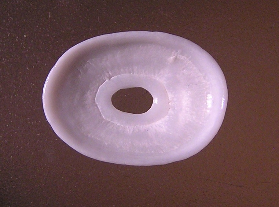 Cosmetalepas africana Tomlin, 1926; a keyhole limpet from the family Fissurellidae; South Africa